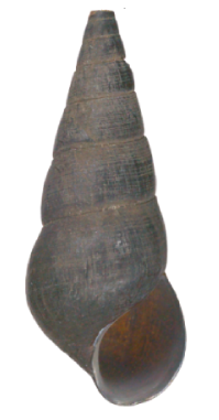 Photo of an apertural view of a shell of Tylomelania helmuti.